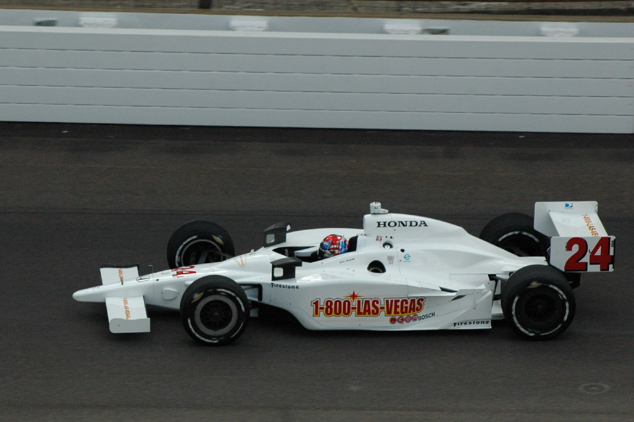 John Andretti practicing for the 2008 Indianapolis 500.